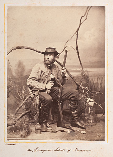 American photographer Robert Benecke, with hunting rifle and gear. Benecke's signature is below the lower left corner. The caption reads, "the Champion Shot of America."